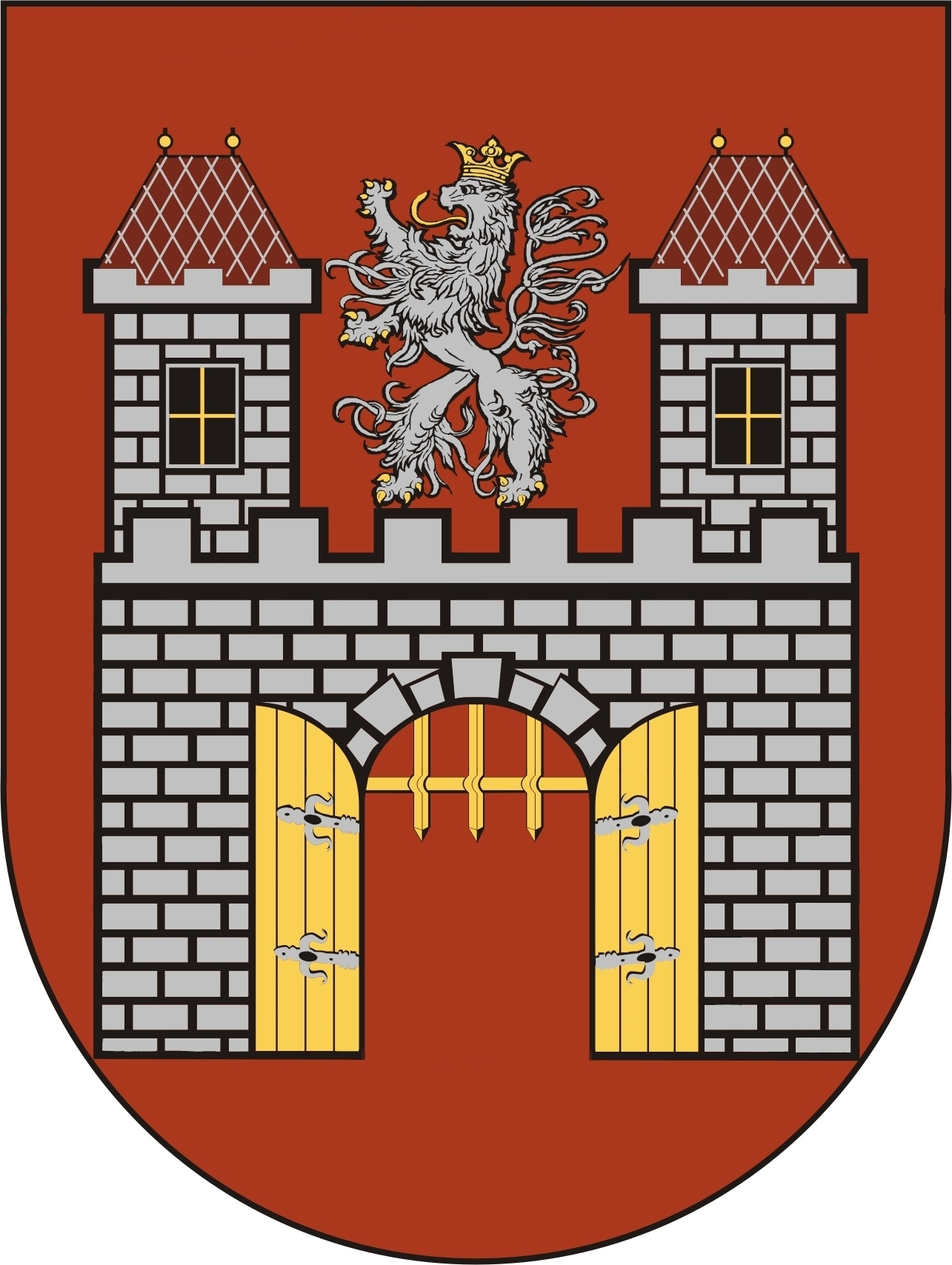 Municipal coat of arms of Dvůr Králové town, Trutnov District, Czech Republic.